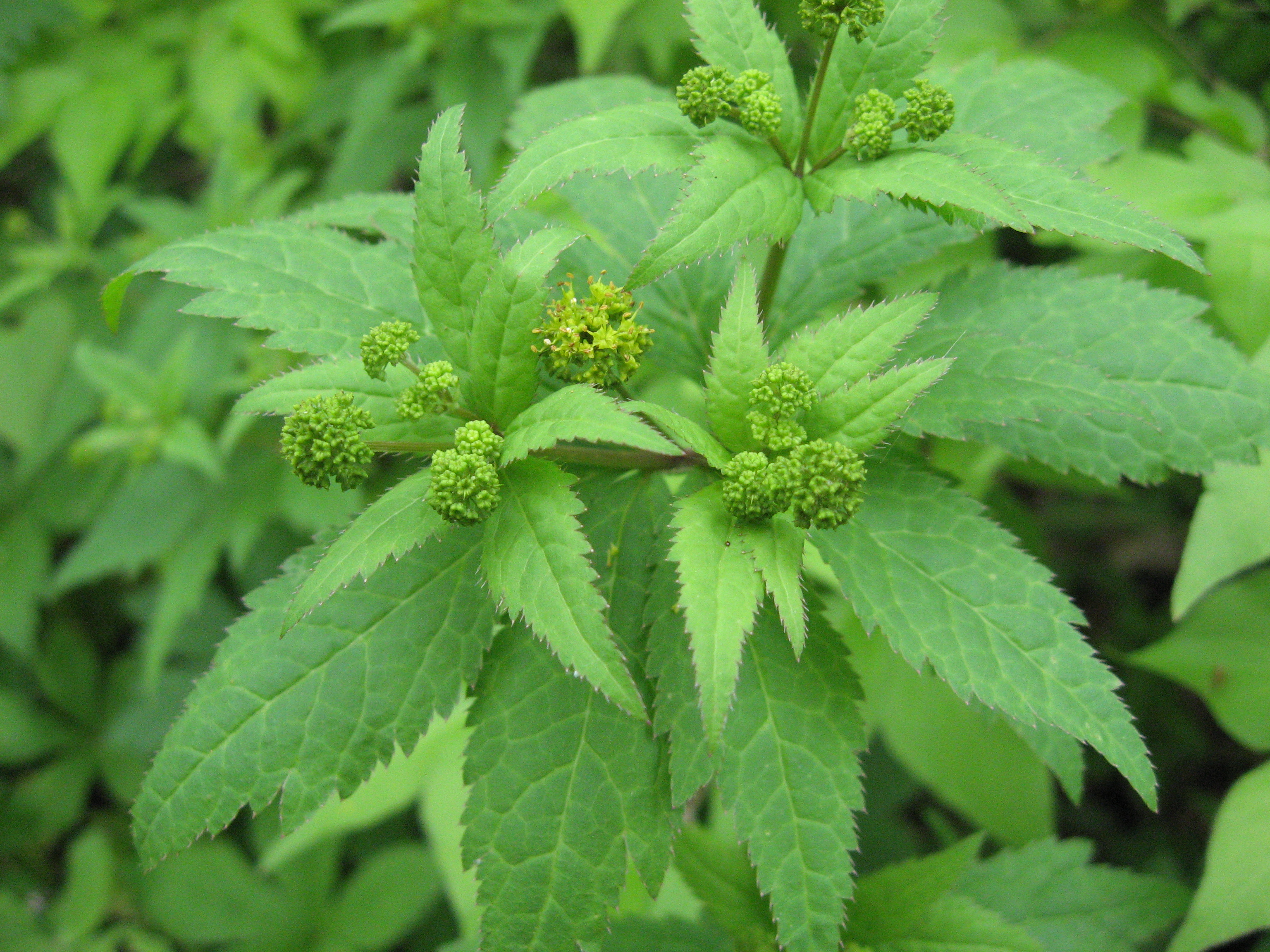 Sanicula odorata, forest near Hawk Creek, Laurel County, Kentucky.